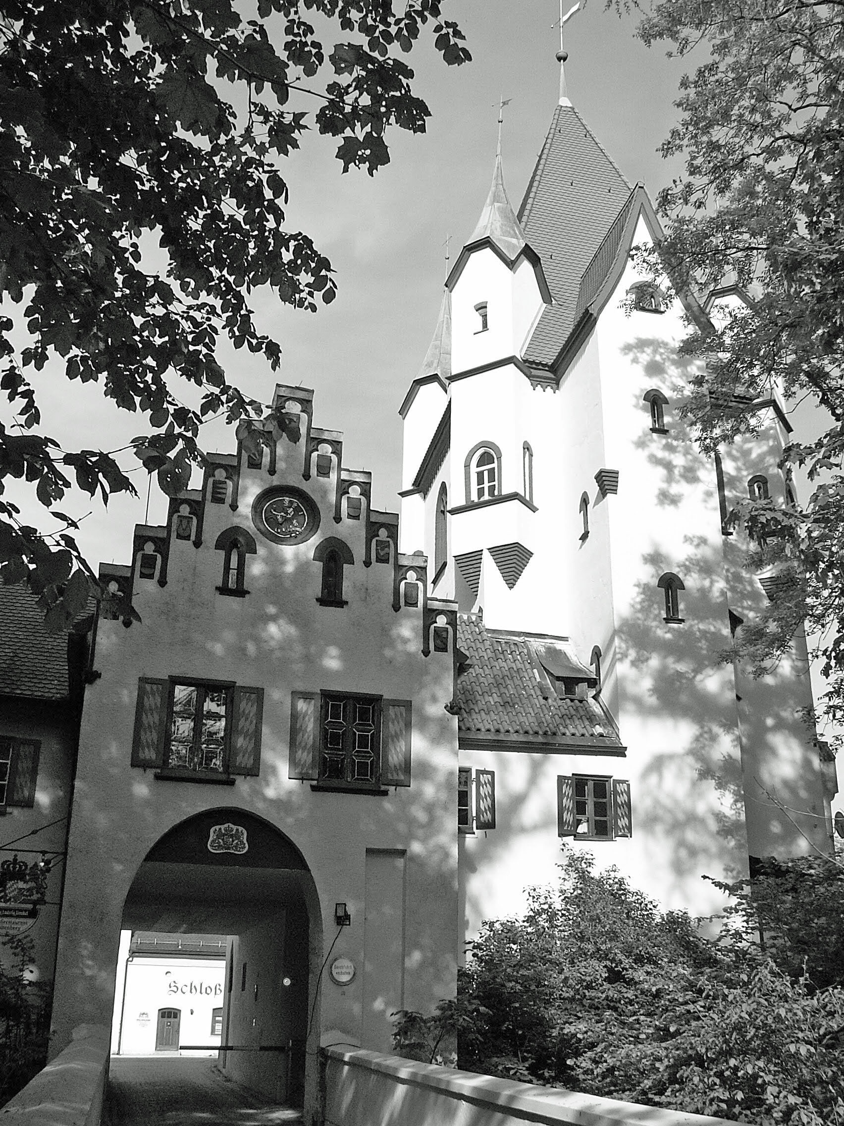 Schloss Kaltenberg, Geltendorf